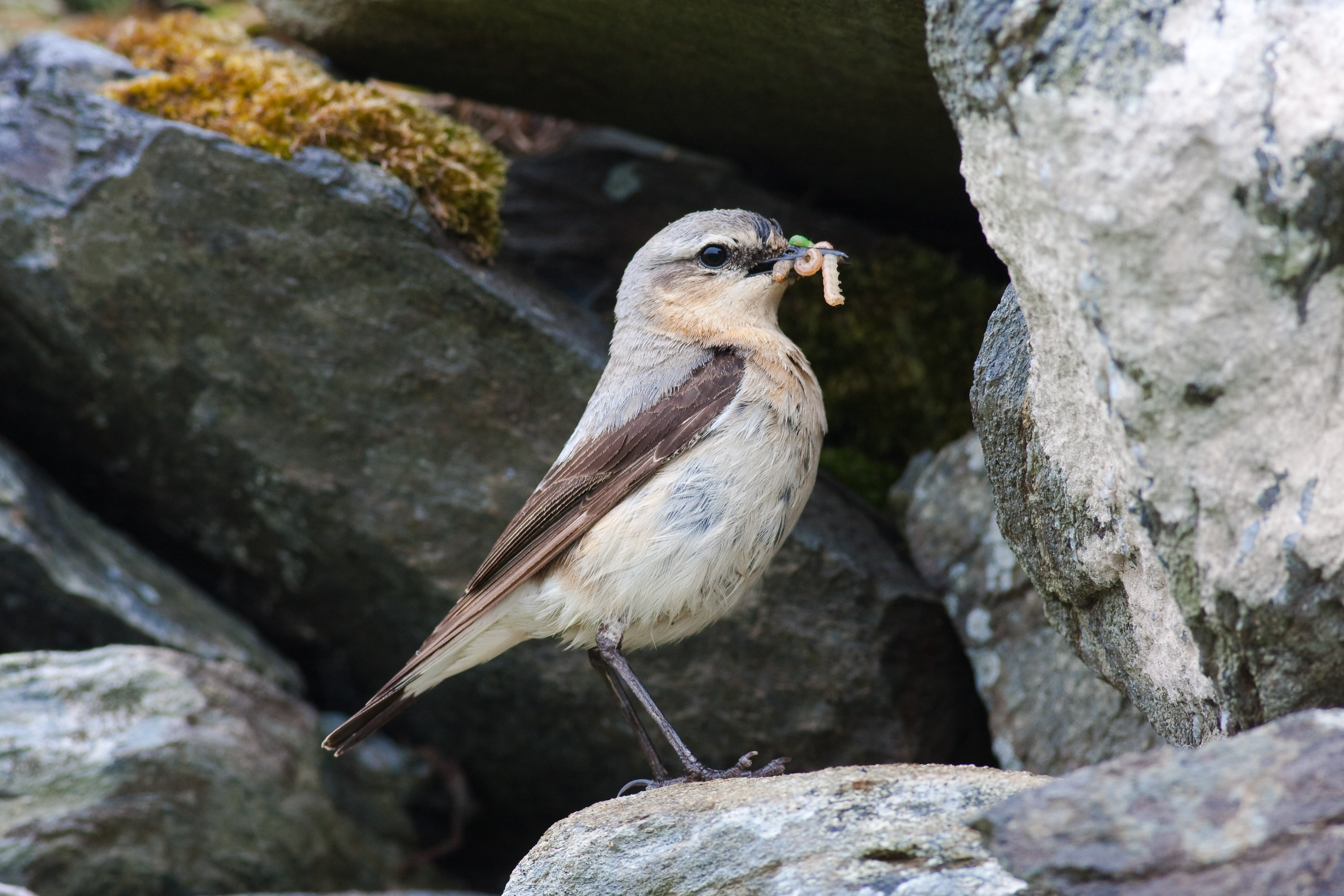 A Northern Wheatear on Inishbofin, County Galway, Ireland.